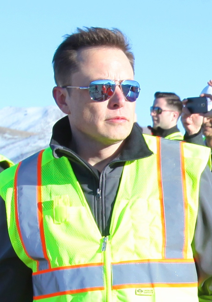 Elon Musk oveseeing phrase 1 of the construction of Gigafactory